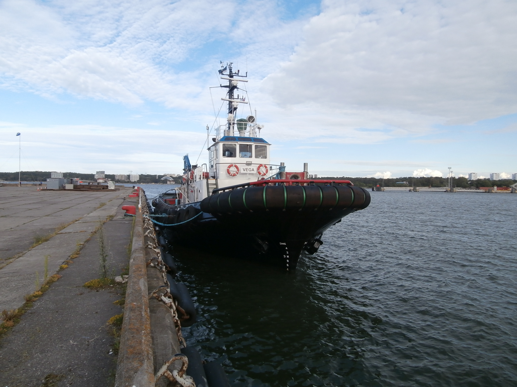 Vega at quay 17 in Port of Tallinn 18 July 2017